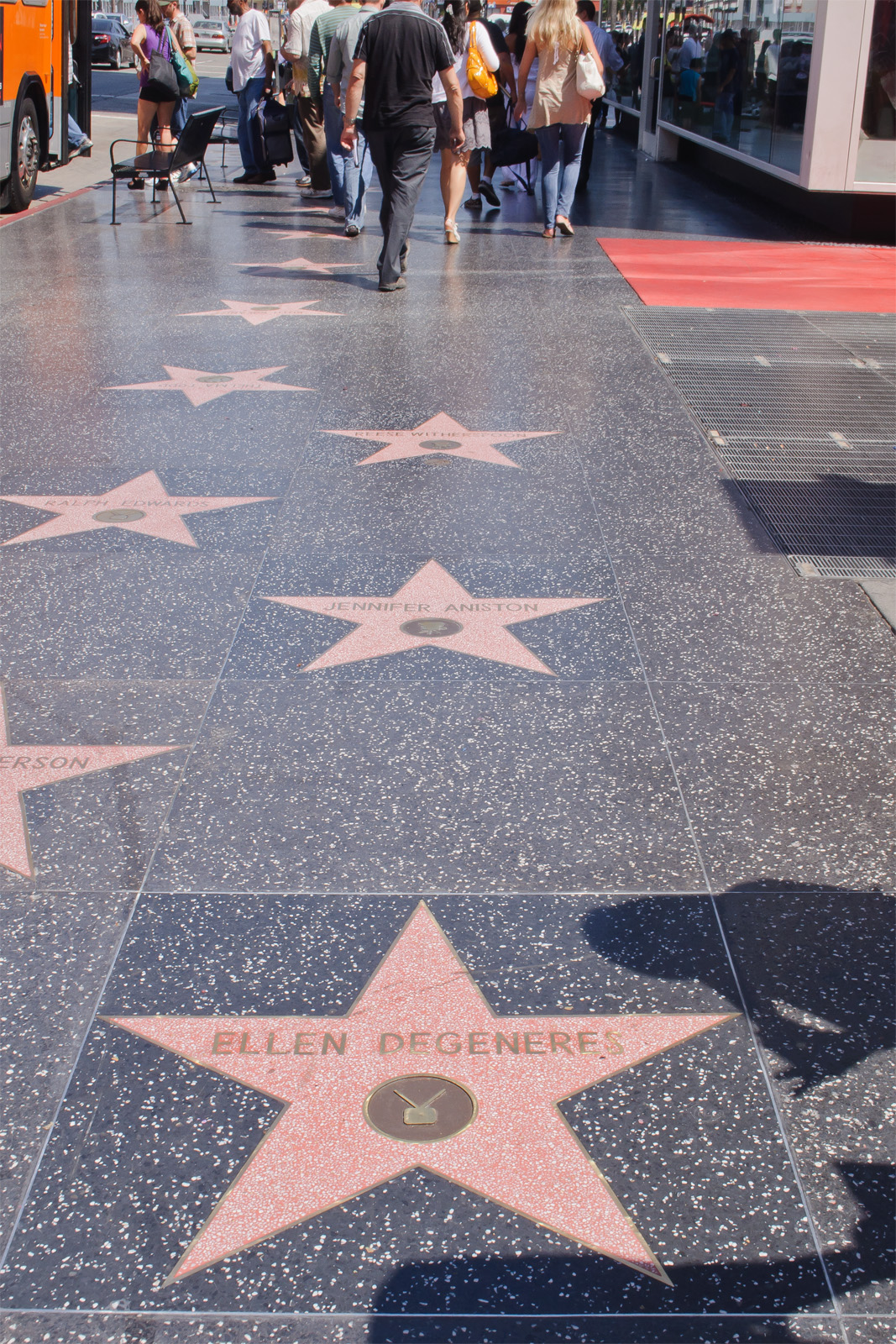 In the foreground is the newest star on the Hollywood Walk of Fame, awarded to comedienne Ellen DeGeneres only a few days prior. It is a great sight for me, since Ellen is my idol by virtue of being a comedienne AND a lesbian icon (and I do reference Ellen in my own, very Sapphic stand-up comedy set). Just behind Ellen's star are stars belonging to my favorite Greek Goddess Jennifer Aniston, as well as Reese Witherspoon.